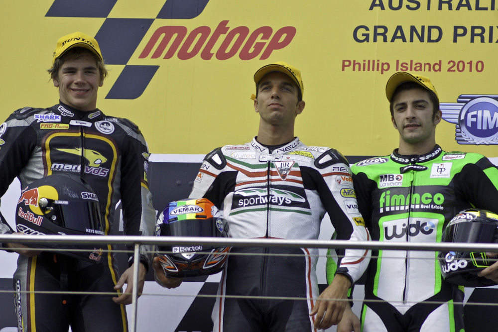 Phillip Island Moto2 podium 2010